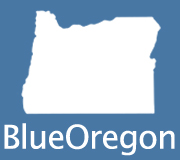 Logo of BlueOregon